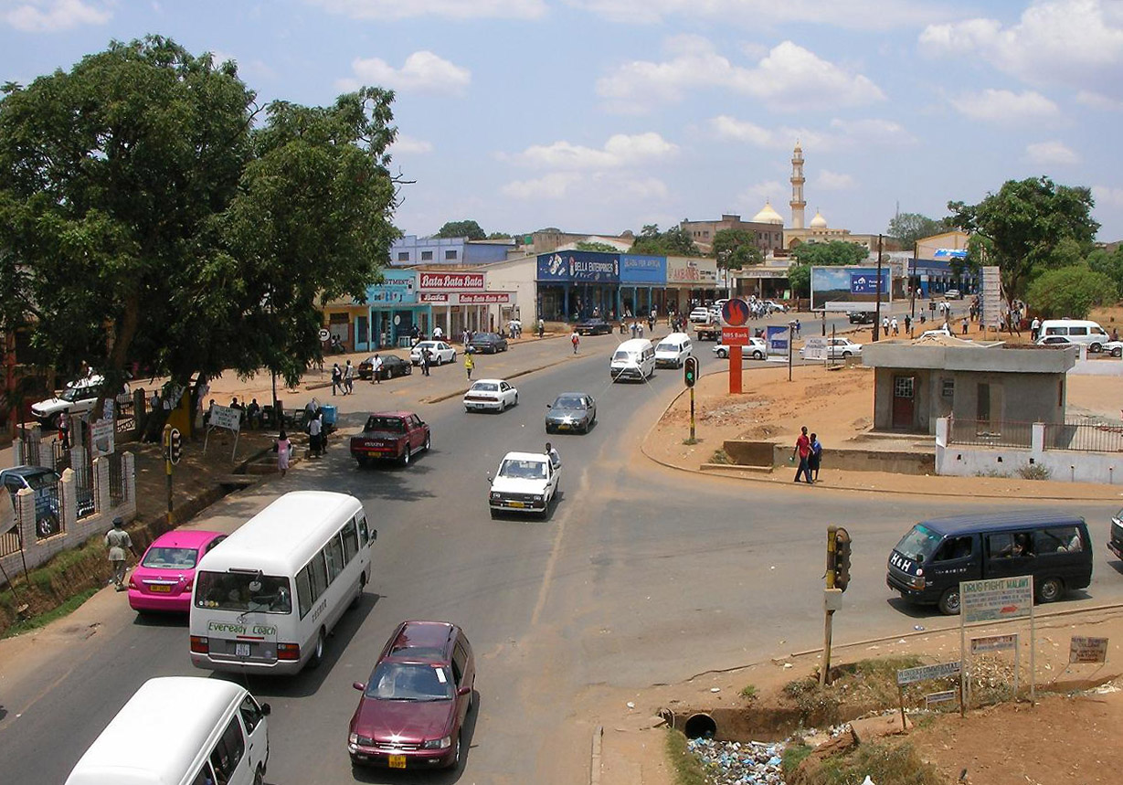 view east into Area 2 of Old Town Lilongwe, Malawi. View is from a pedestrian overpass. The Lilongwe River runs north-south 100 or 150 meters behind the camera. Altimeter 1055 meters.